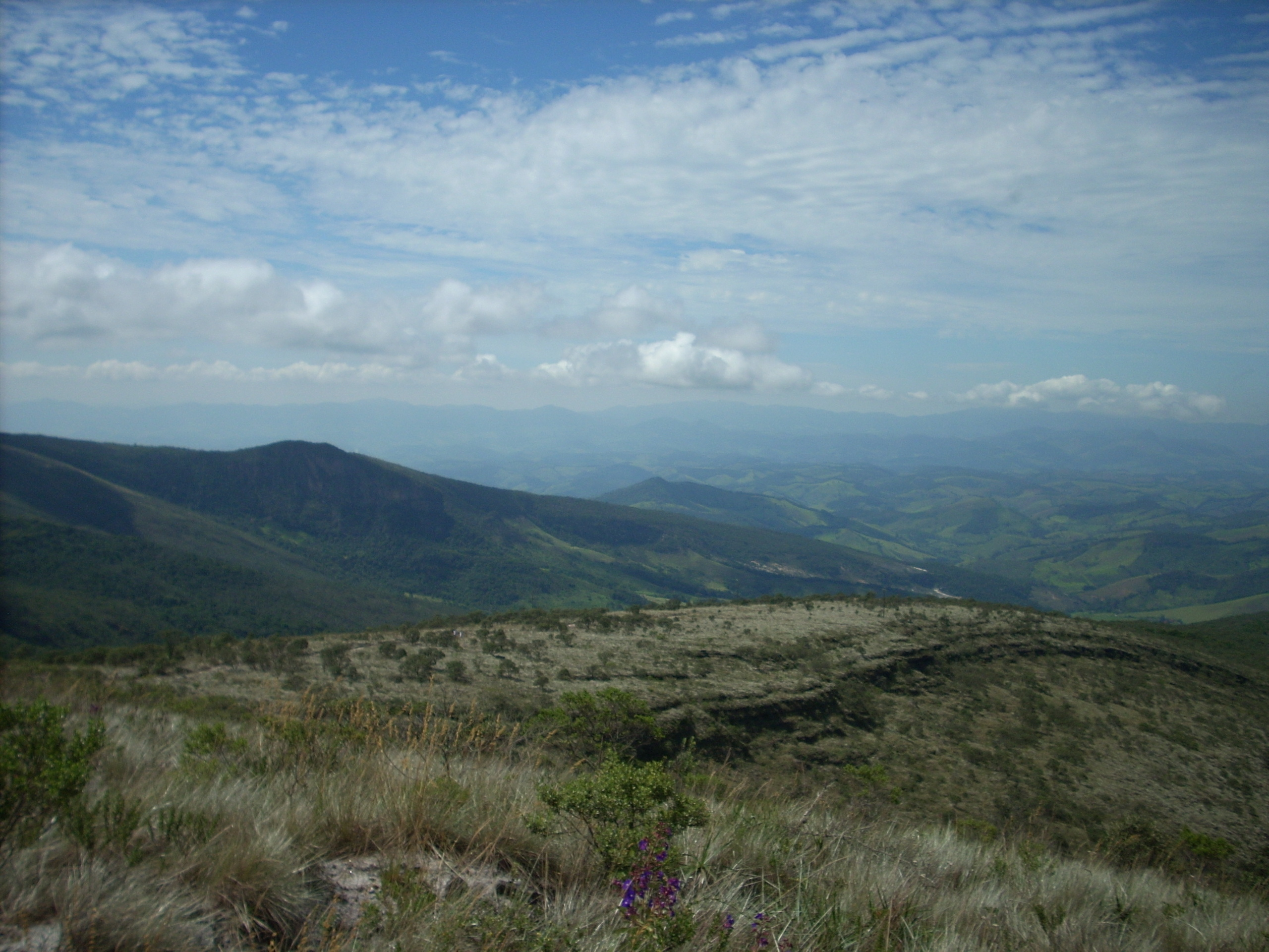 Ibitipoca Park view